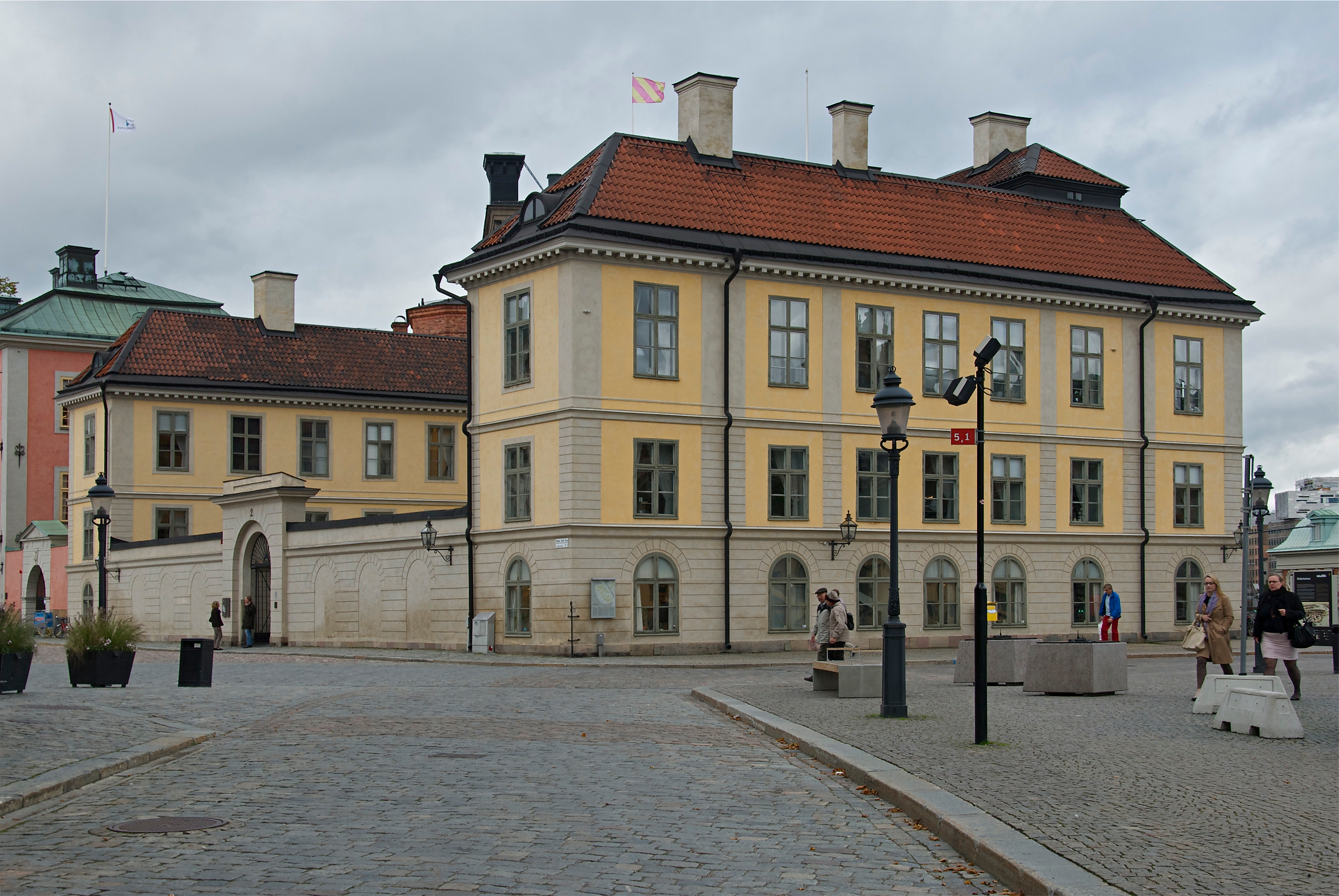 Hessensteinska palatset (the Hessenstein Palace) september 2011.